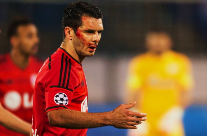 Emir Spahić